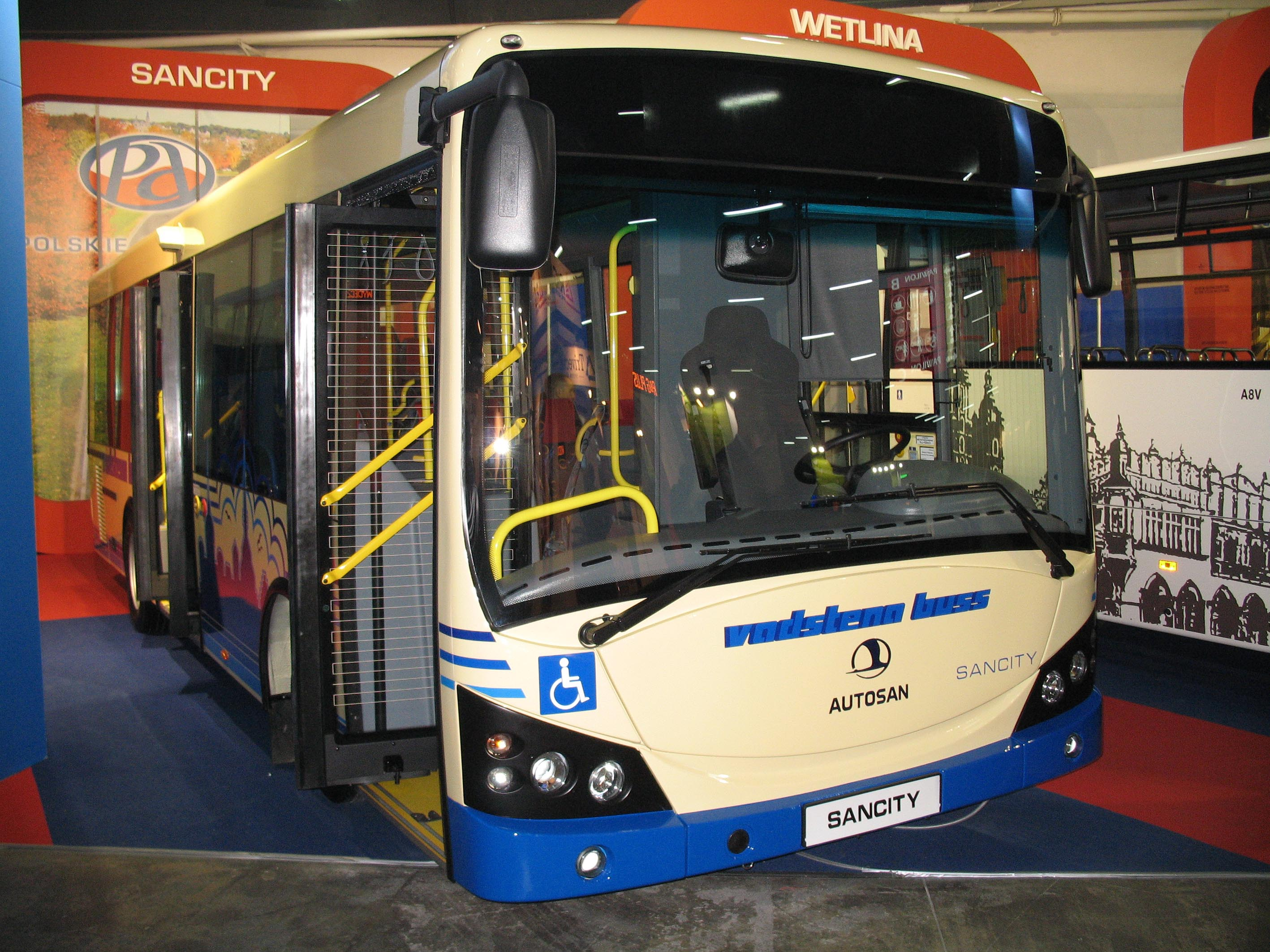 Autosan A0808MN.04.01 Sancity bus in Kielce, Poland. Transexpo 2008. For Vadstena Buss operator in Vadstena, Sweden.